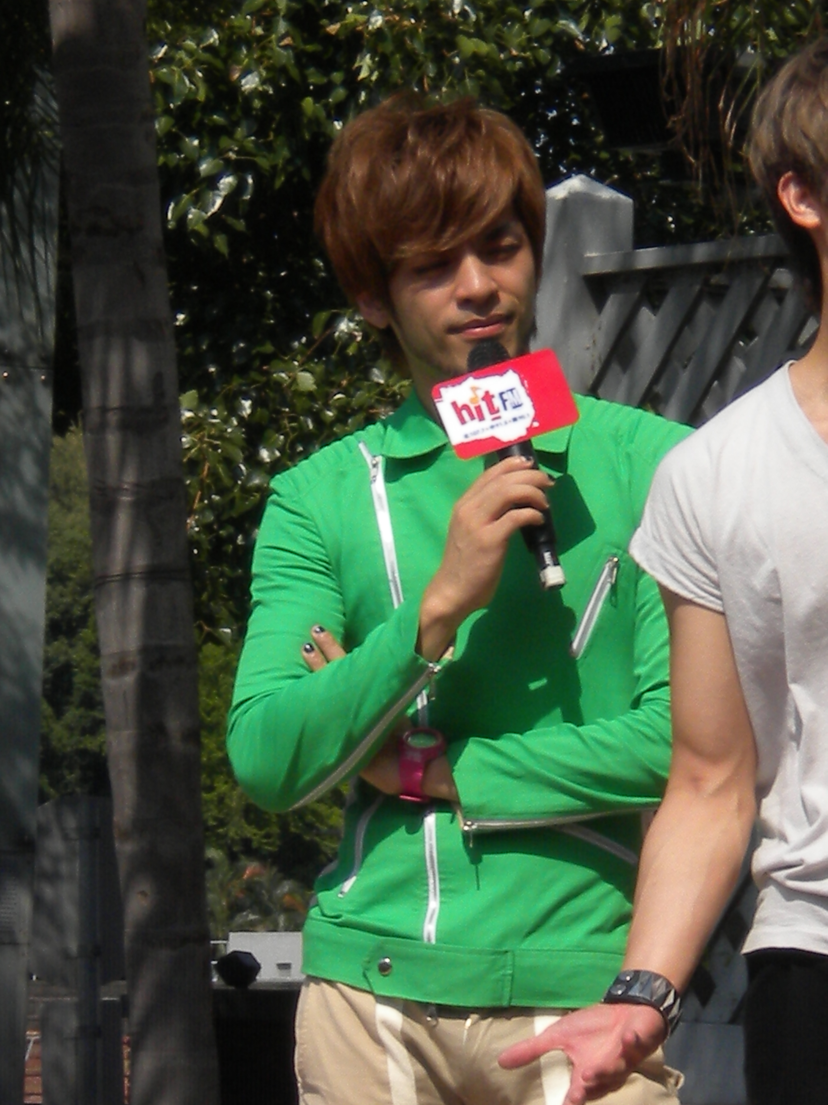 Da mouth's DJ Sakamoto Chun Wha